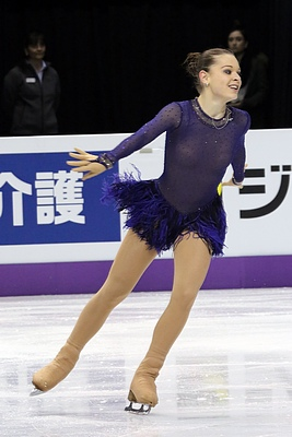 Adelina Sotniкova at the World Championships 2013